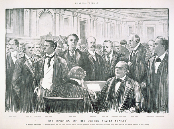 Opening of the United States Senate session, December 1902. Among the senators shown are William B. Allison of Iowa, third from left, and the two Ohio senators, Mark Hanna, who is the shorter man prominently at right center, and Joseph B. Foraker, who stands behind Hanna and slightly to the right.